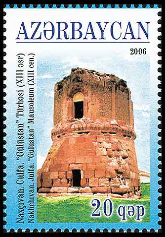 Stamp of Azerbaijan